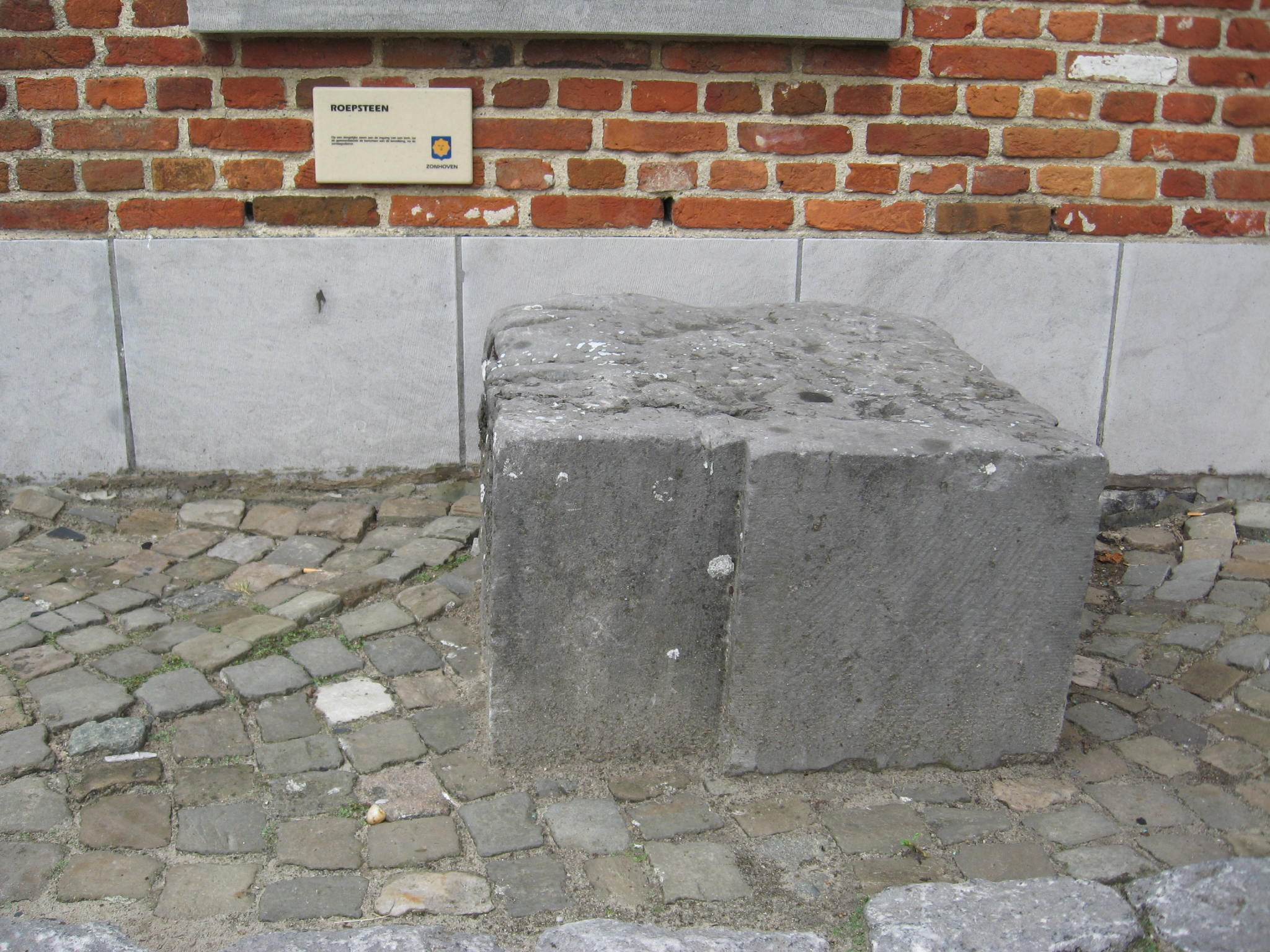 Stone for reading messages at the chapel Ten Eikenen in Zonhoven, Limburg